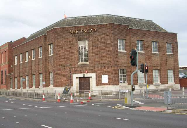 West Yorkshire Archive Service Leeds section, based in the former public library at Sheepscar, Leeds, West Yorkshire, England